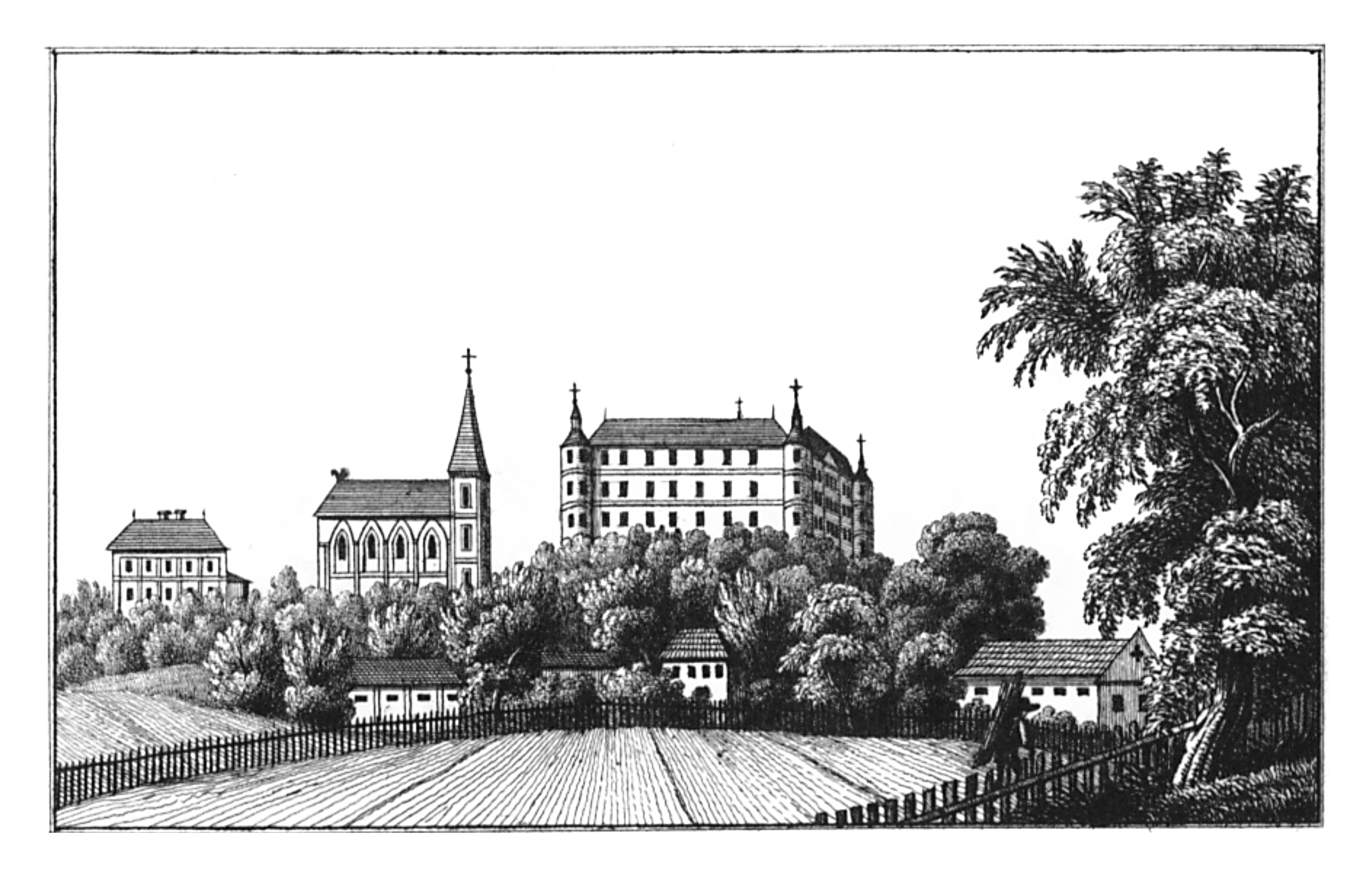 J. F. Kaiser - lithographirte Ansichten der Steyermärkischen Städte, Märkte und Schlösser, Graz 1824-1833 Joseph Franz Kaiser (1786–1859) Alternative names J. F. KaiserDescriptionAustrian printer and editorDate of birth/death 11 March 1786 19 September 1859Location of birth/death Graz (Styria) GrazAuthority control : Q1499963 VIAF: 30629353 ISNI: 0000 0000 3083 0153 LCCN: n87141671 GND: 129880159 NLP: A24960305 WorldCat creator QS:P170,Q1499963 . Scanprojekt Community Projektbudget 2012 This scan or this PDF-file was created within the GLAM-project Bookscanning, supported by Wikimedia Germany and Wikimedia Austria as a part of the community-project to capture books, documents and pictures which are not eligible to copyright or for which the copyright has expired. This document describes or depicts an object which is located in Austria today. Send requests for uncompressed scans to Hubertl. This work is in the public domain in its country of origin and other countries and areas where the copyright term is the author's life plus 100 years or less. You must also include a United States public domain tag to indicate why this work is in the public domain in the United States. This file has been identified as being free of known restrictions under copyright law, including all related and neighboring rights.